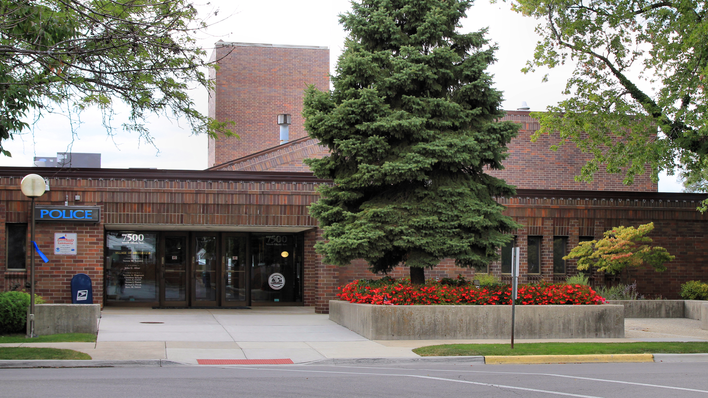 City Hall for Bridgeview, Illinois, United States